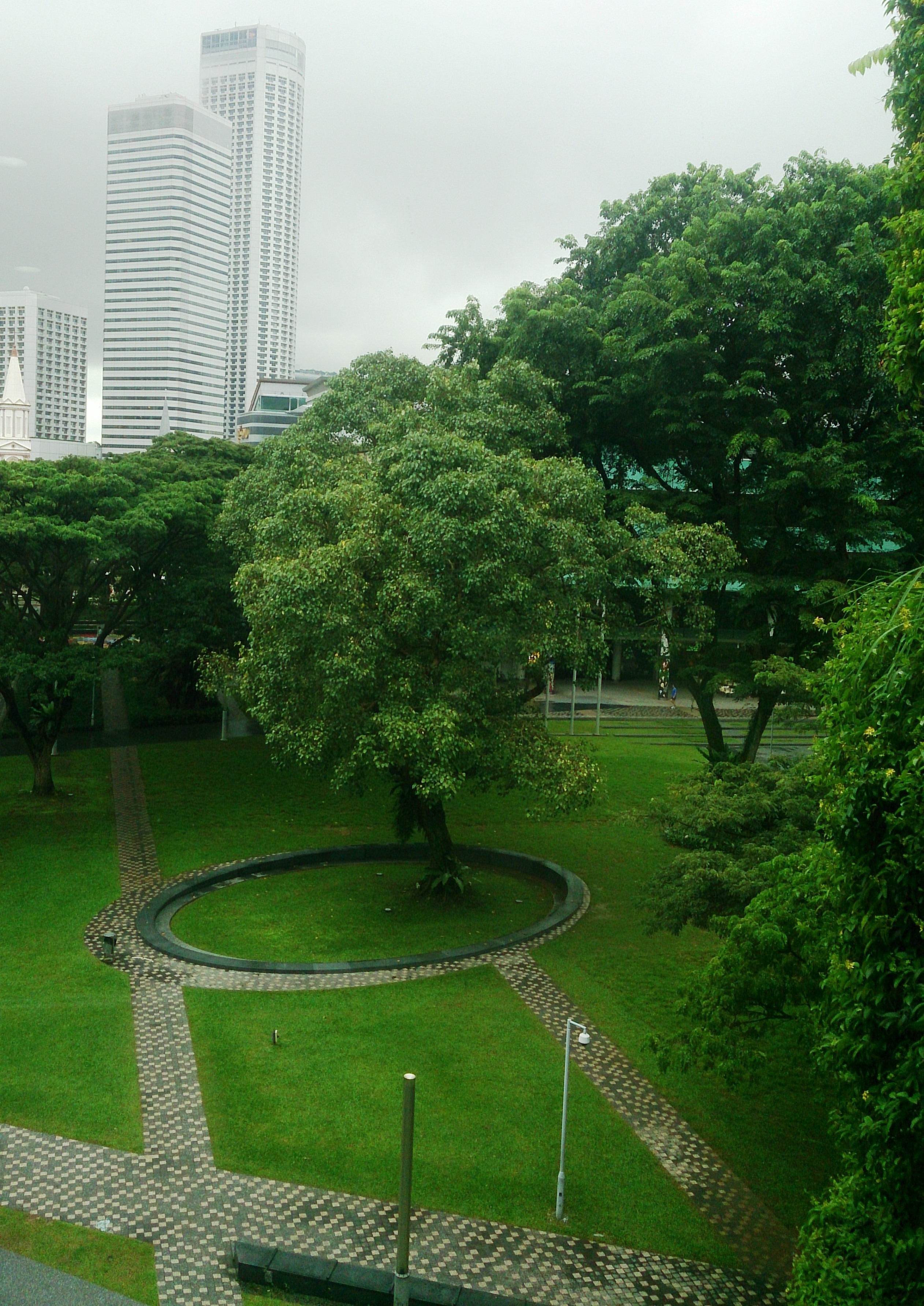 A sacred fig (Ficus religiosa), also known as a Bodhi or pippal tree, on College Green, Singapore Management University. Swissôtel The Stamford can be seen in the background.